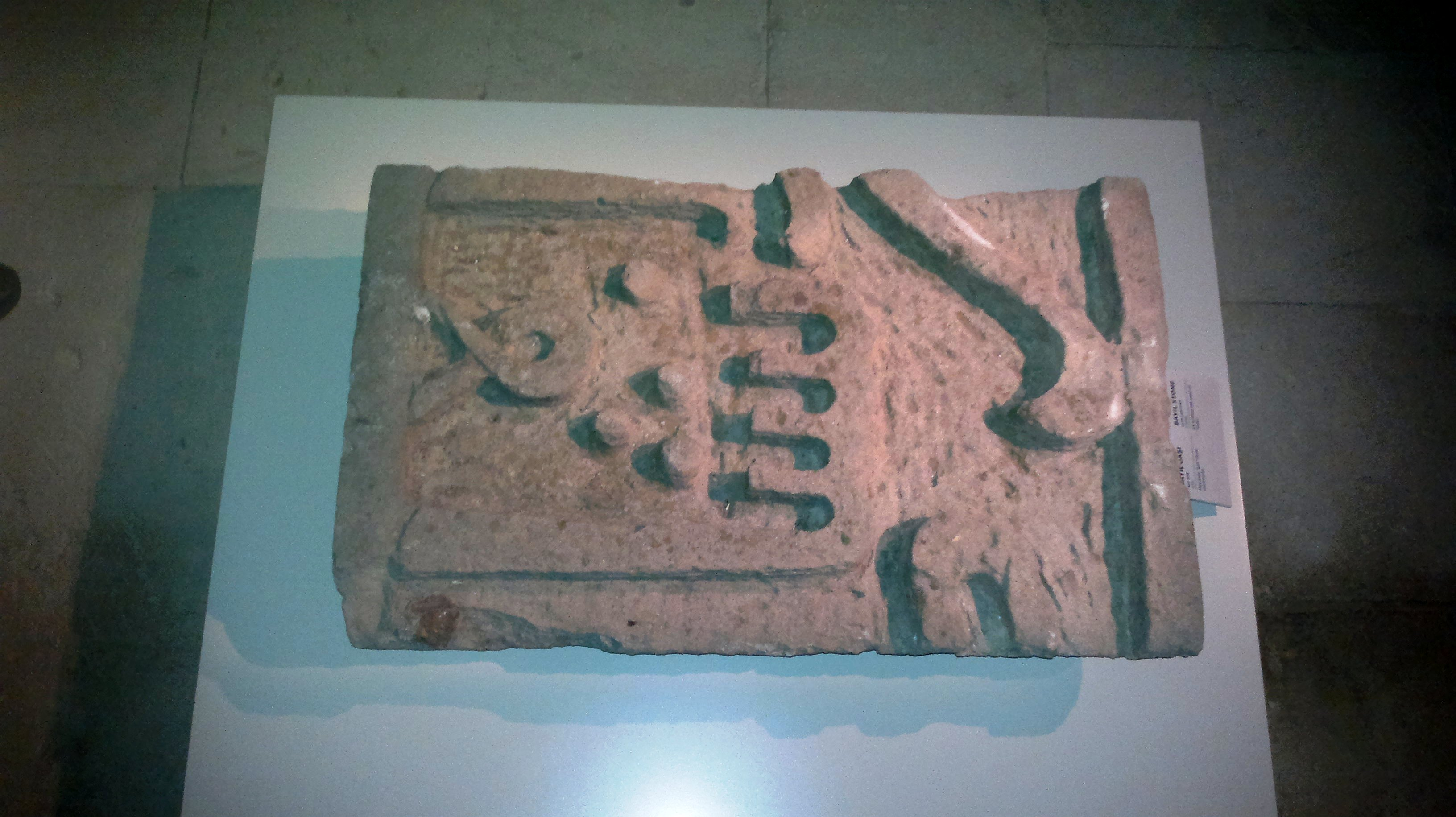 Bayil stone in Shirvanshah's Palace. It's written the "shah" on it